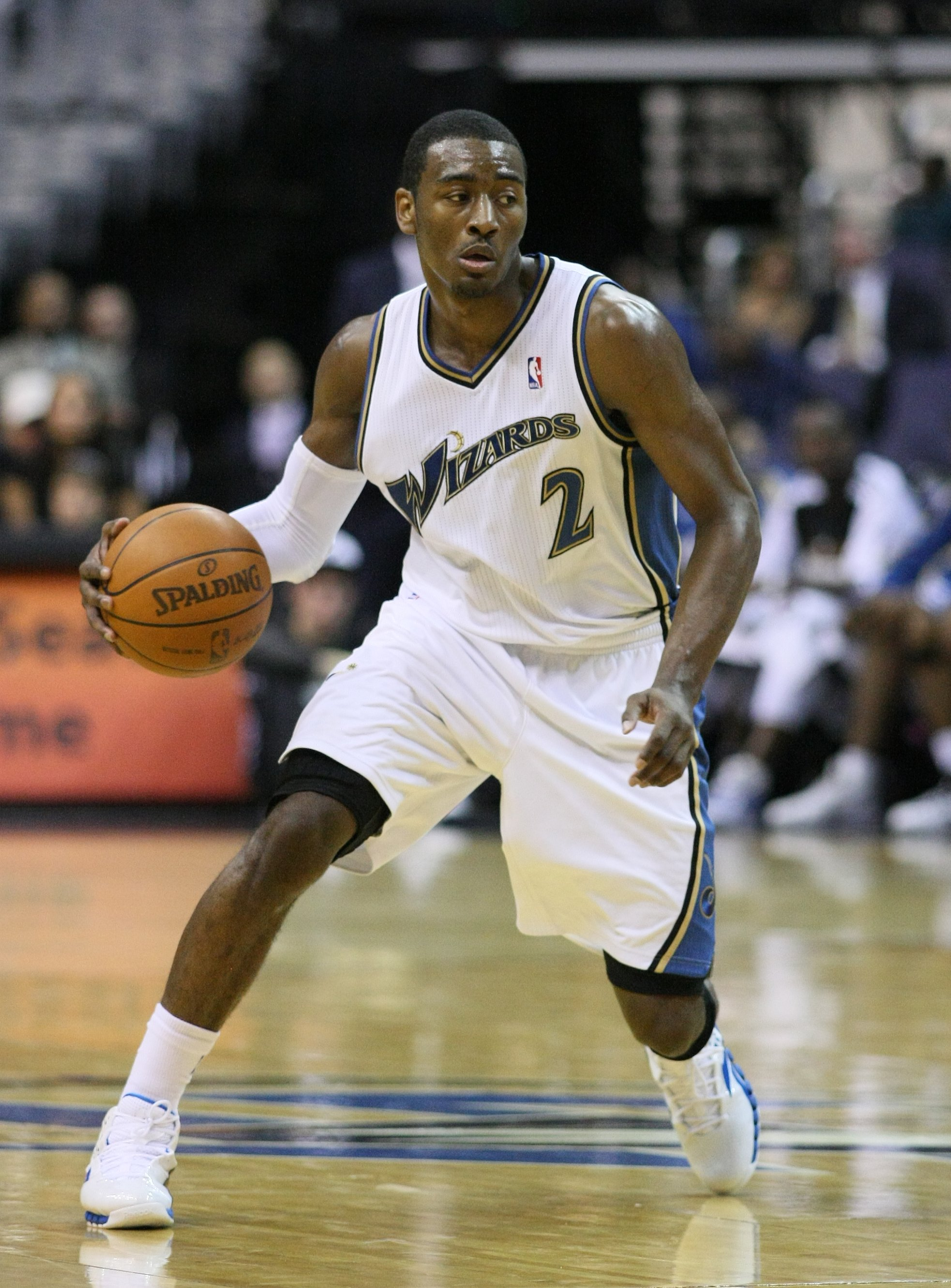 John Wall in Washington Wizards v/s Philadelphia 76ers November 23, 2010